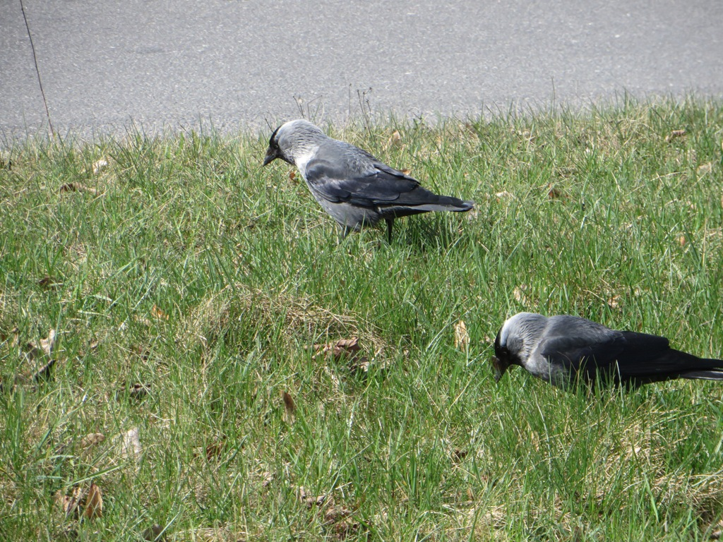 Corvus monedula. Found in Rīga, Latvia